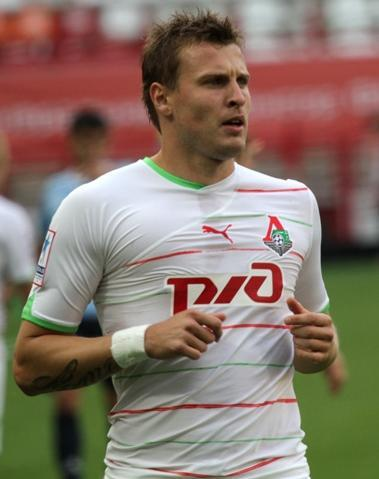 Jan Durica playing for FC Lokomotiv Moscow